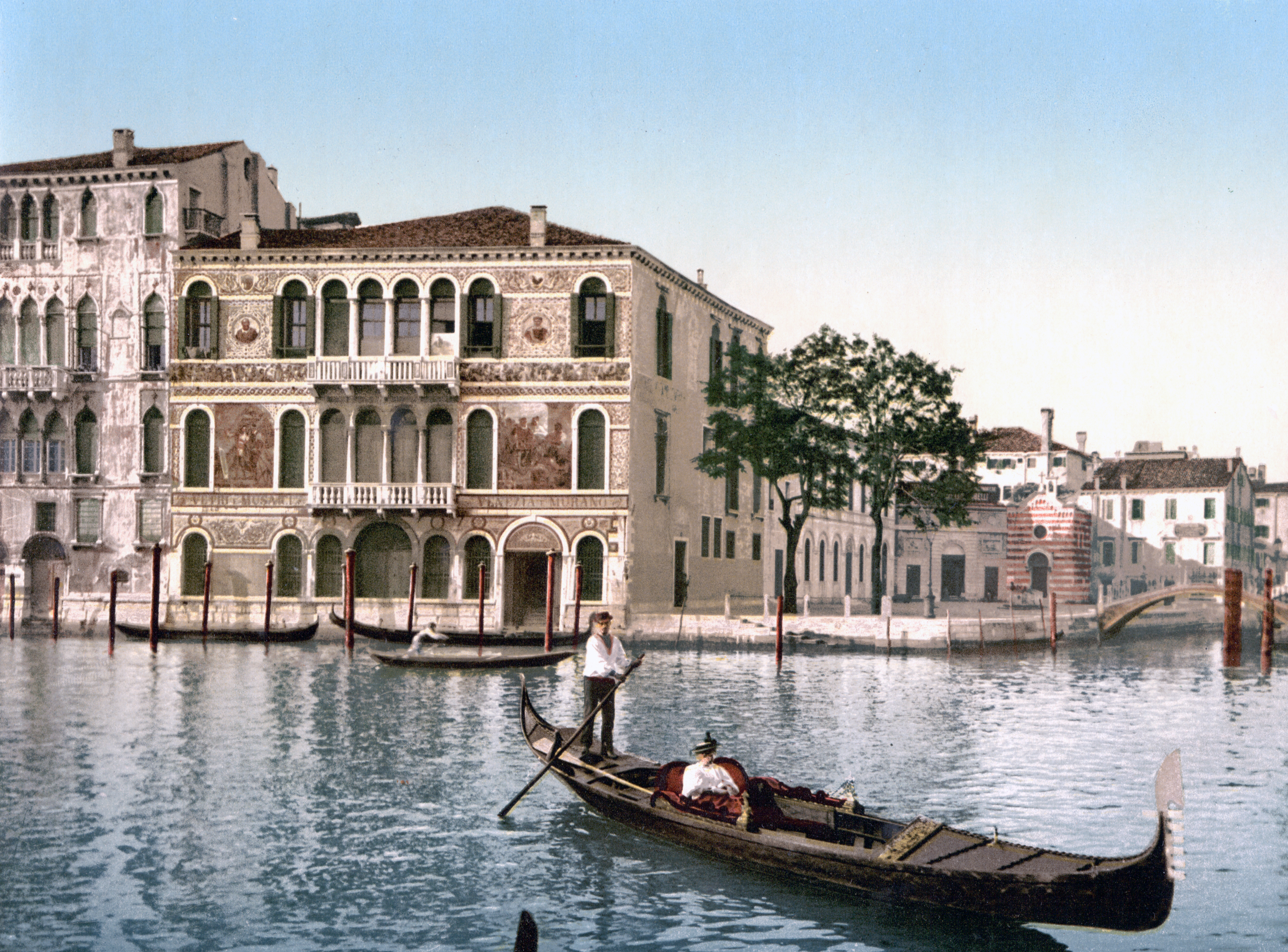 Da Mulla Palace, Venice, Italy. Photochrom.